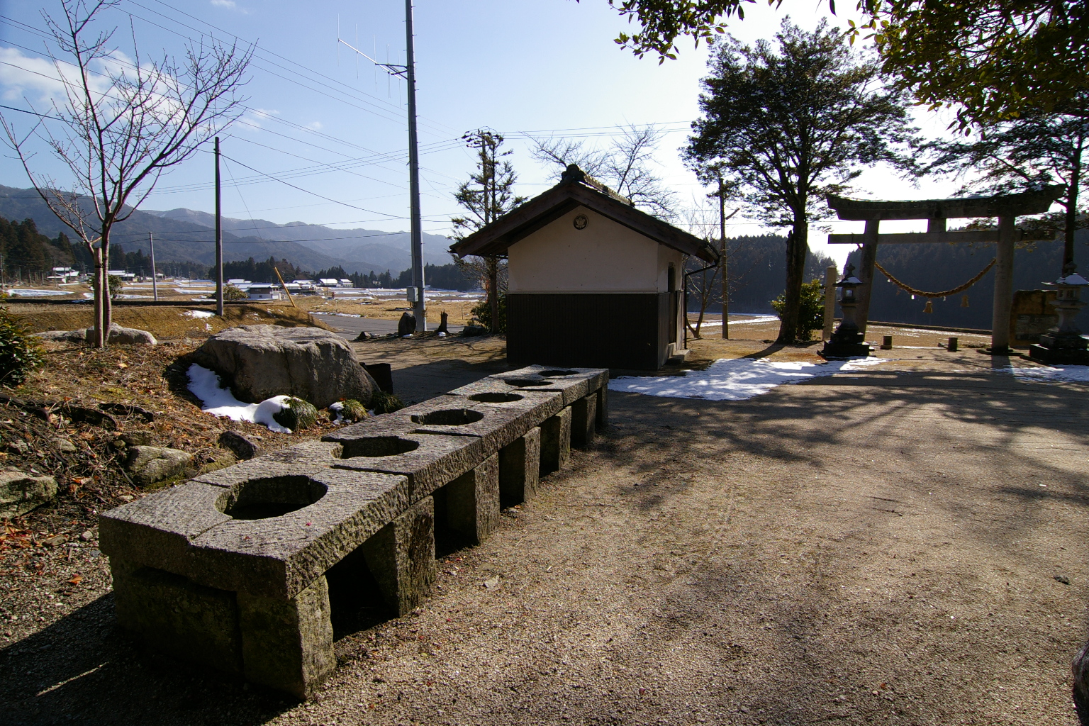 The 6-stoves in precincts of Ono hachiman shrine. Agi Nakatsugawa, Gifu, Japan.